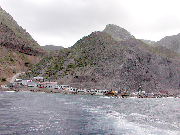 Saba's only port. Image taken by Clark Anderson/Aquaimages.